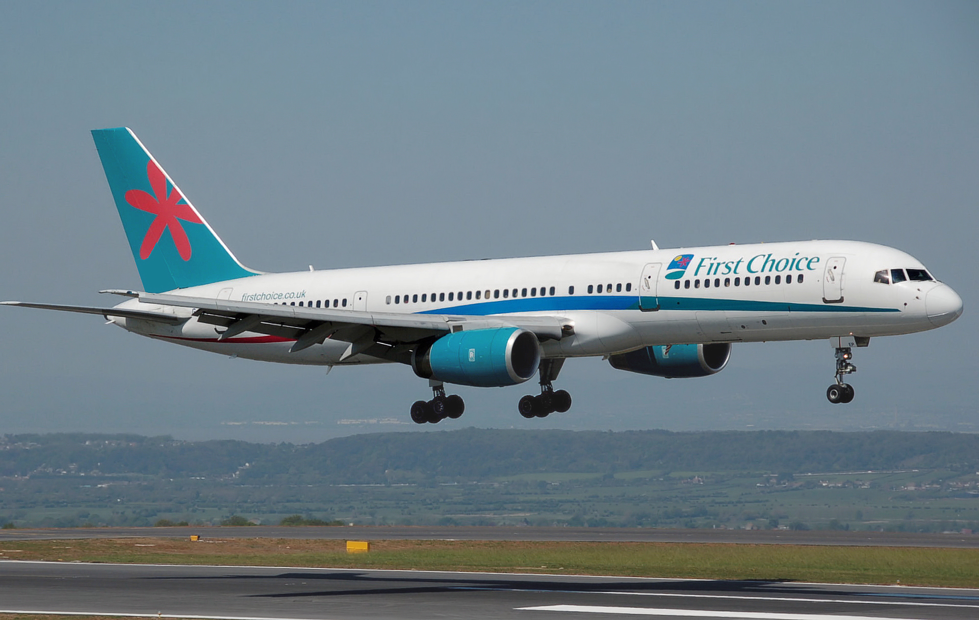 First Choice Airways Boeing B757-200 (G-CPEP) lands at Bristol International Airport, England.